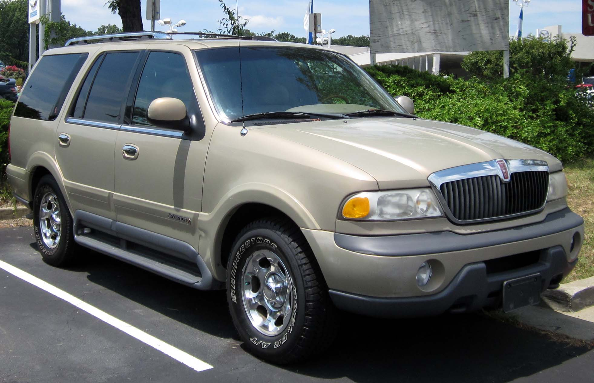 A first-generation Lincoln Navigator photographed in Silver Spring, Maryland, USA in July 2012.